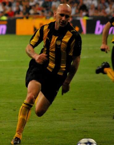 Guillermo Rodríguez (Peñarol) and Cristiano Ronaldo (Real Madrid) trying to get the ball.